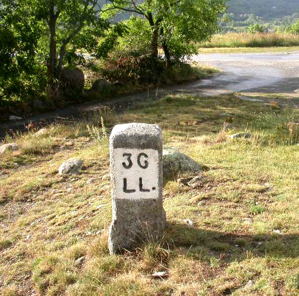 International border Spain-France, by enclave of Llívia (Gerona)